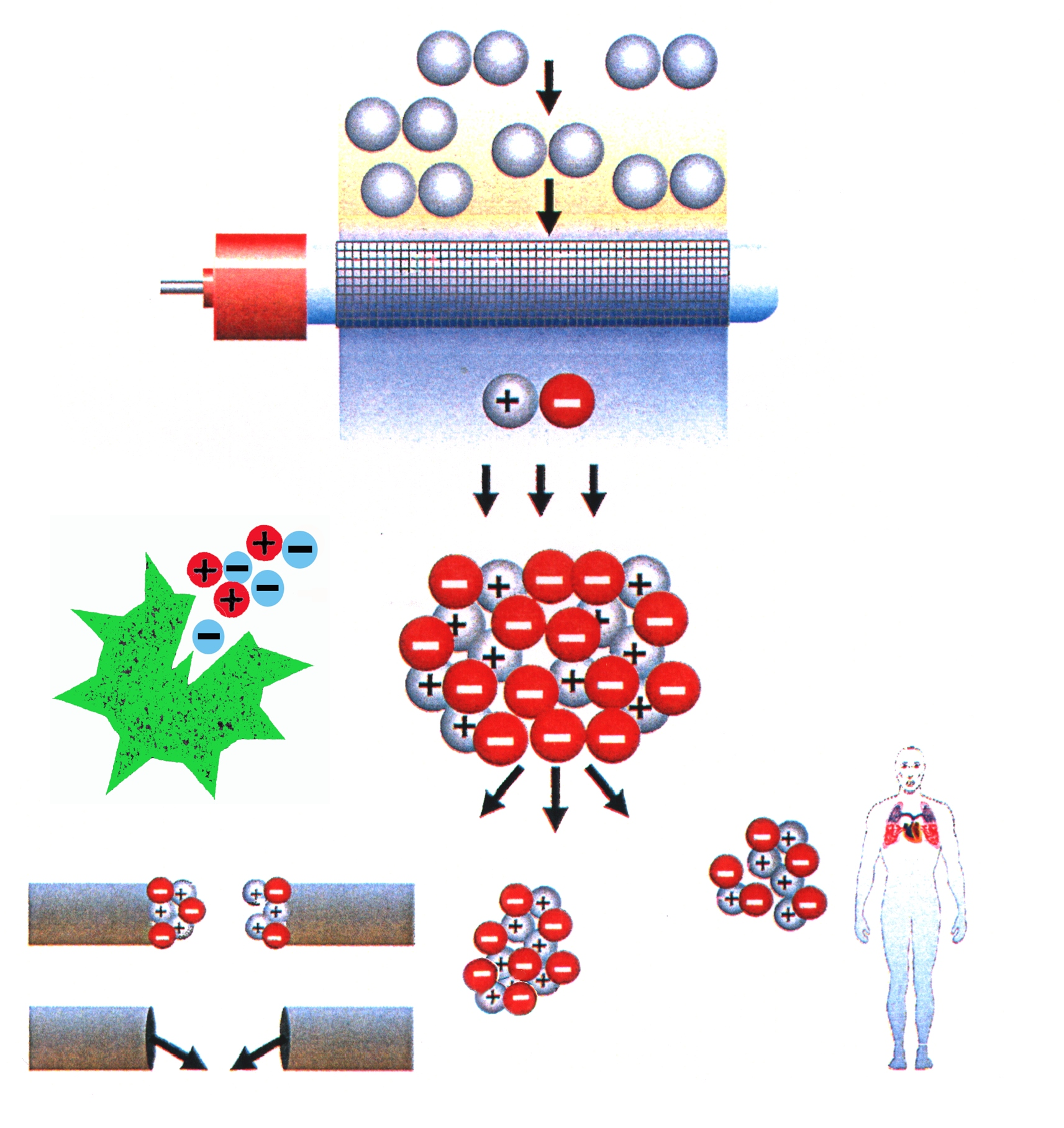 The graph shows the function of air ionization. By the ionization of oxygen radicals are produced, which are grouped into clusters, and oxygen through the oxidation a landed splitting long-chain compounds. The air is treated in e.g. deodorizing and pollutant degradation